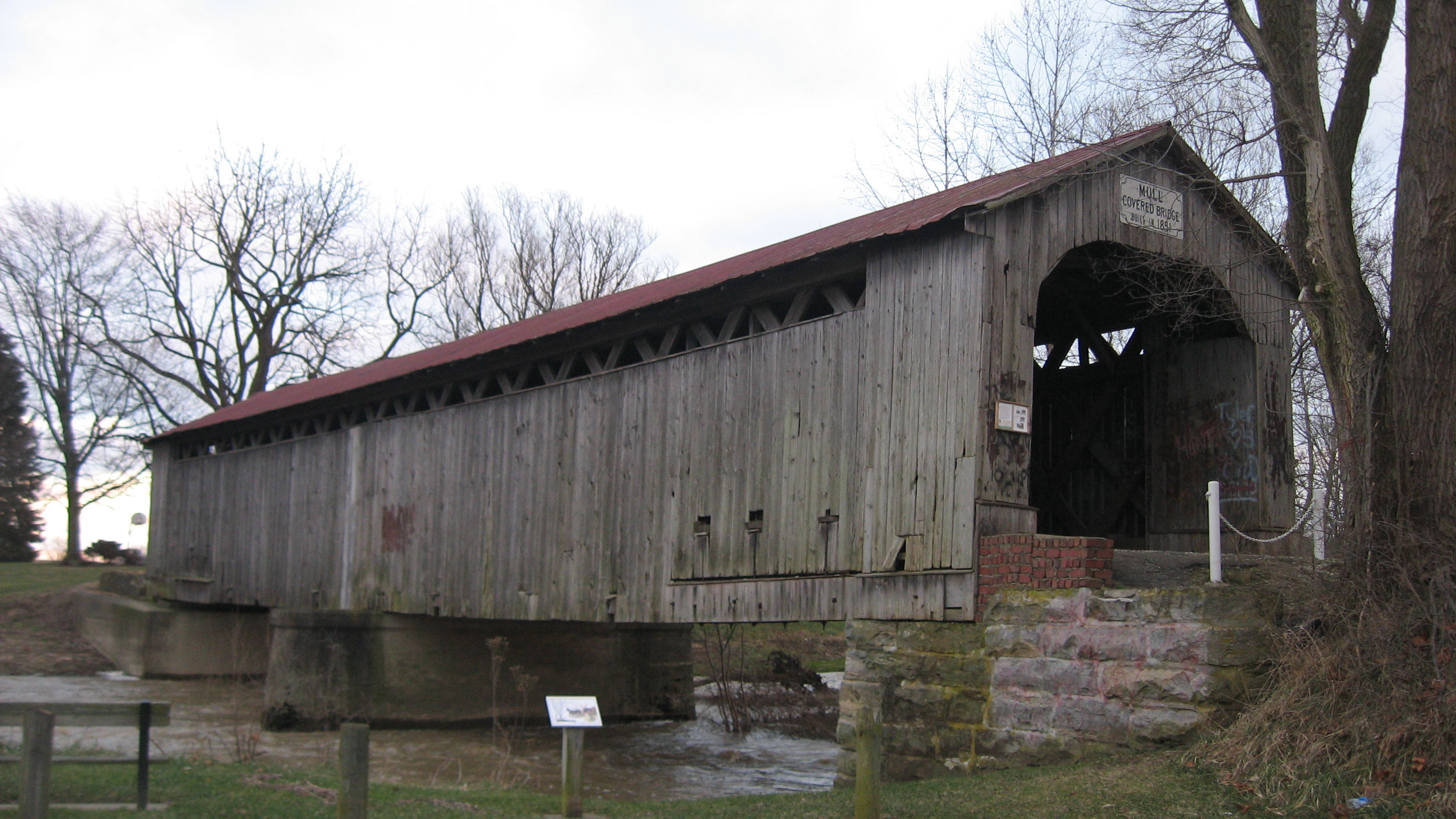 Northern (downstream) side and western portal of the Mull Covered Bridge, which formerly carried County Road 9 (Gillmore Road) over the East Branch of Wolf Creek east of Burgoon in Ballville Township, Sandusky County, Ohio, United States. Built in 1851 and thus one of Ohio's oldest standing covered bridges, it is listed on the National Register of Historic Places.